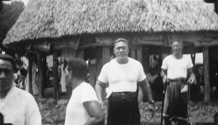 High chief Mata'afa Faumuina Fiame Mulinu'u I, 1930, a paramount chief and a leader of the Mau movement. His son became the first Prime Minister of Samoa. Gagana Samoa: Tama a aiga Mata'afa Faumuina Fiame Mulinu'u I, 1930, o se ta'ita'i o le Mau i le fono i Mulinu'u, 1930.